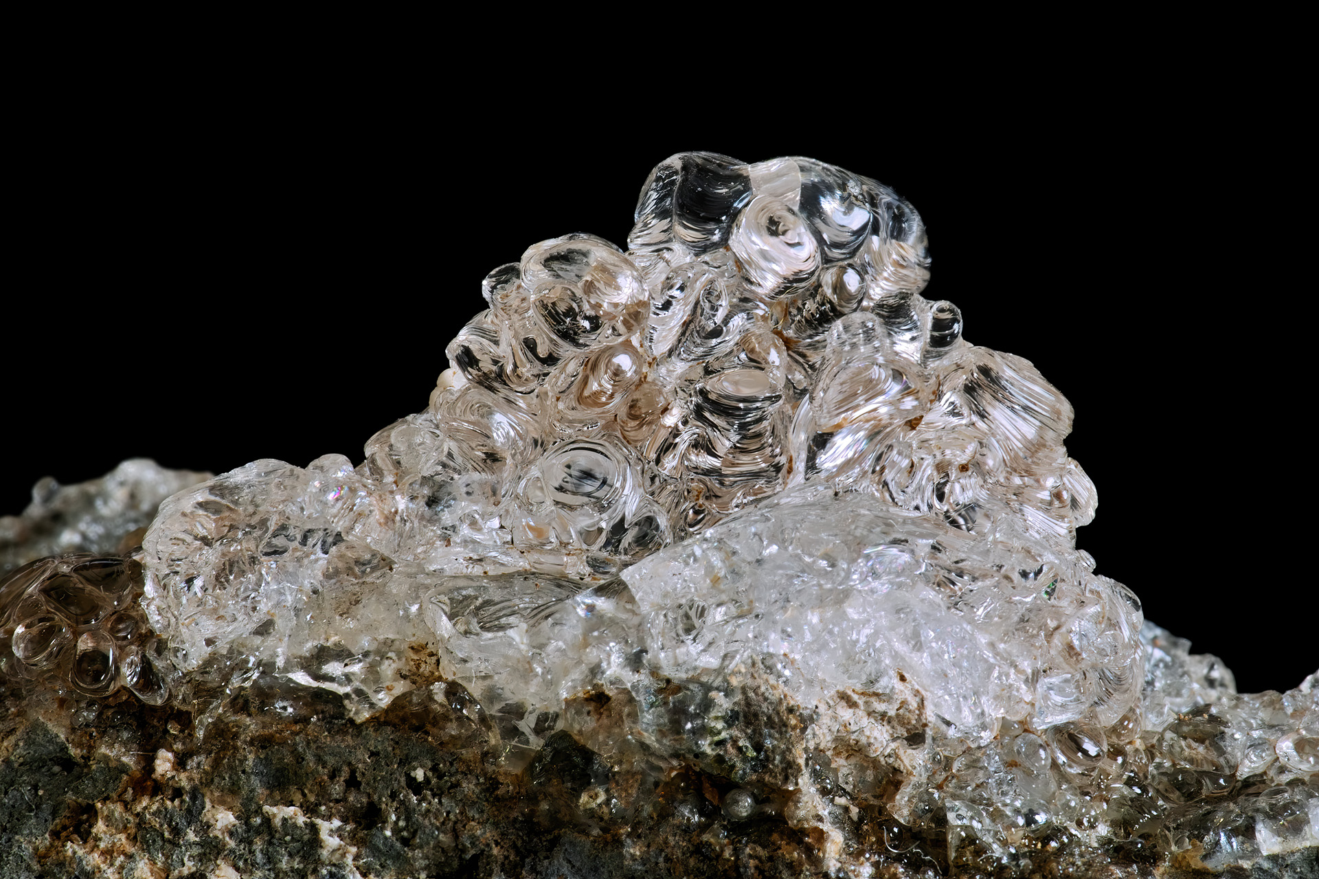 Hyalite, Valec, Czech Republic